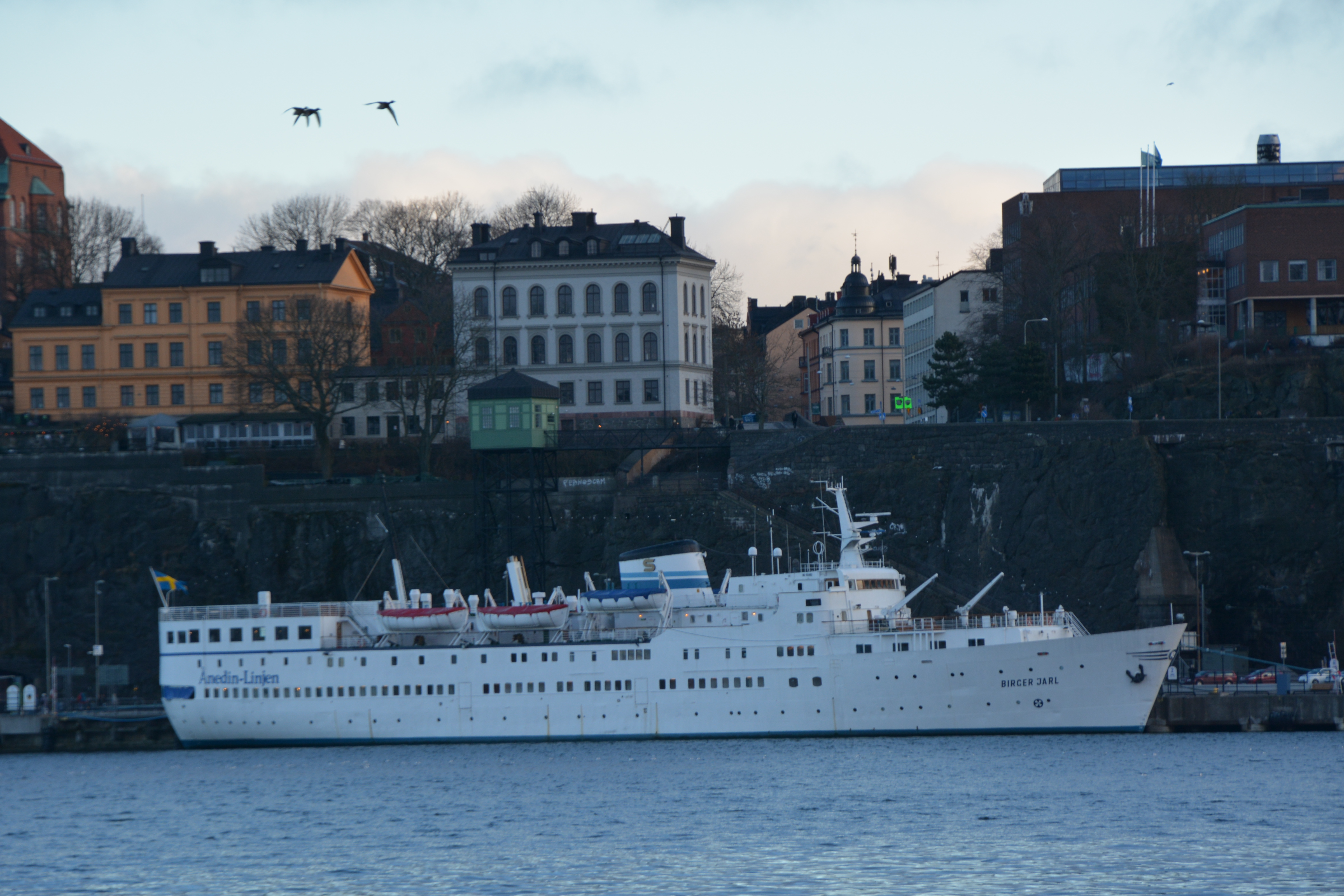 M/S Birger Jarl, mot Södermalm